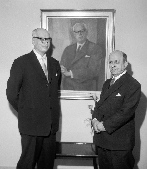 Photograph of Otto Wuorio (1887–1964), President of Finnish Ice Hockey Association, and portrait painter Erkki Kulovesi (1895–1971).